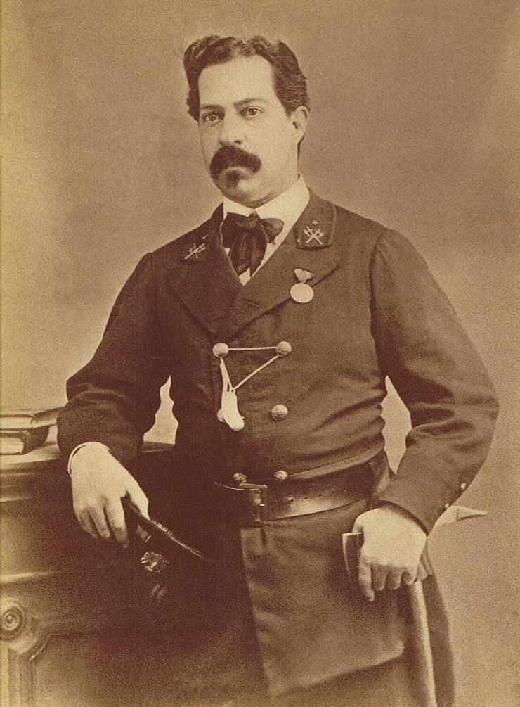 António Guilherme Cossoul (1828–1880), Portuguese composer and musician who, in 1868, founded the Company of Volunteer Firefighters (Companhia de Voluntários Bombeiros), in Lisbon.